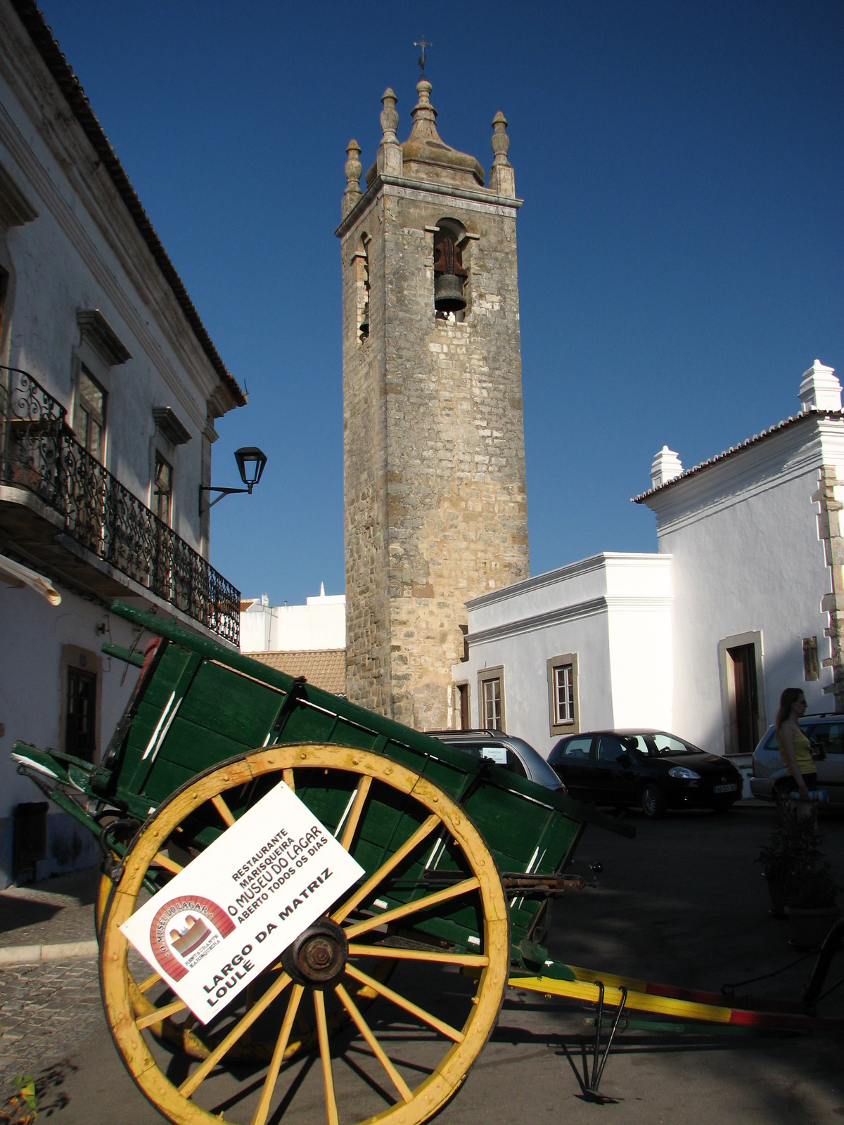 Loule Church - The Algarve, Portugal